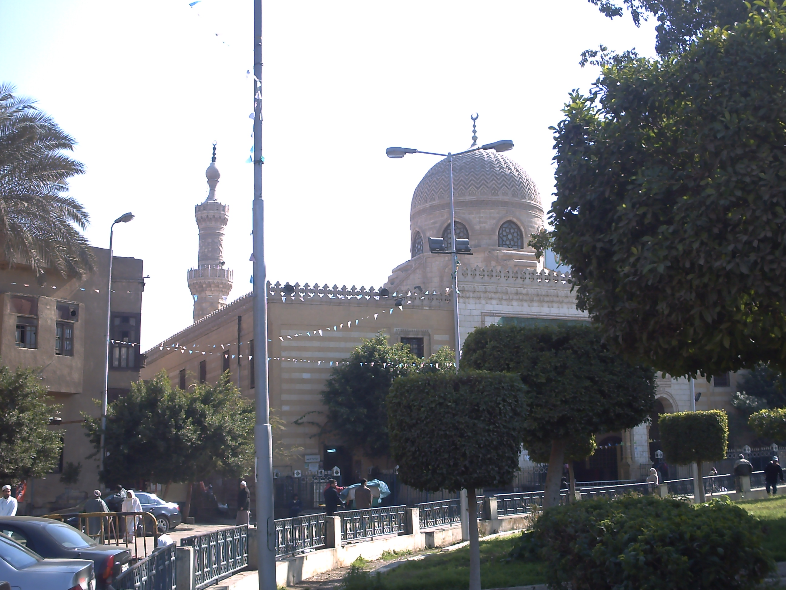 Masjid_having_Nafisa_Mausoleum_side_by,Cairo